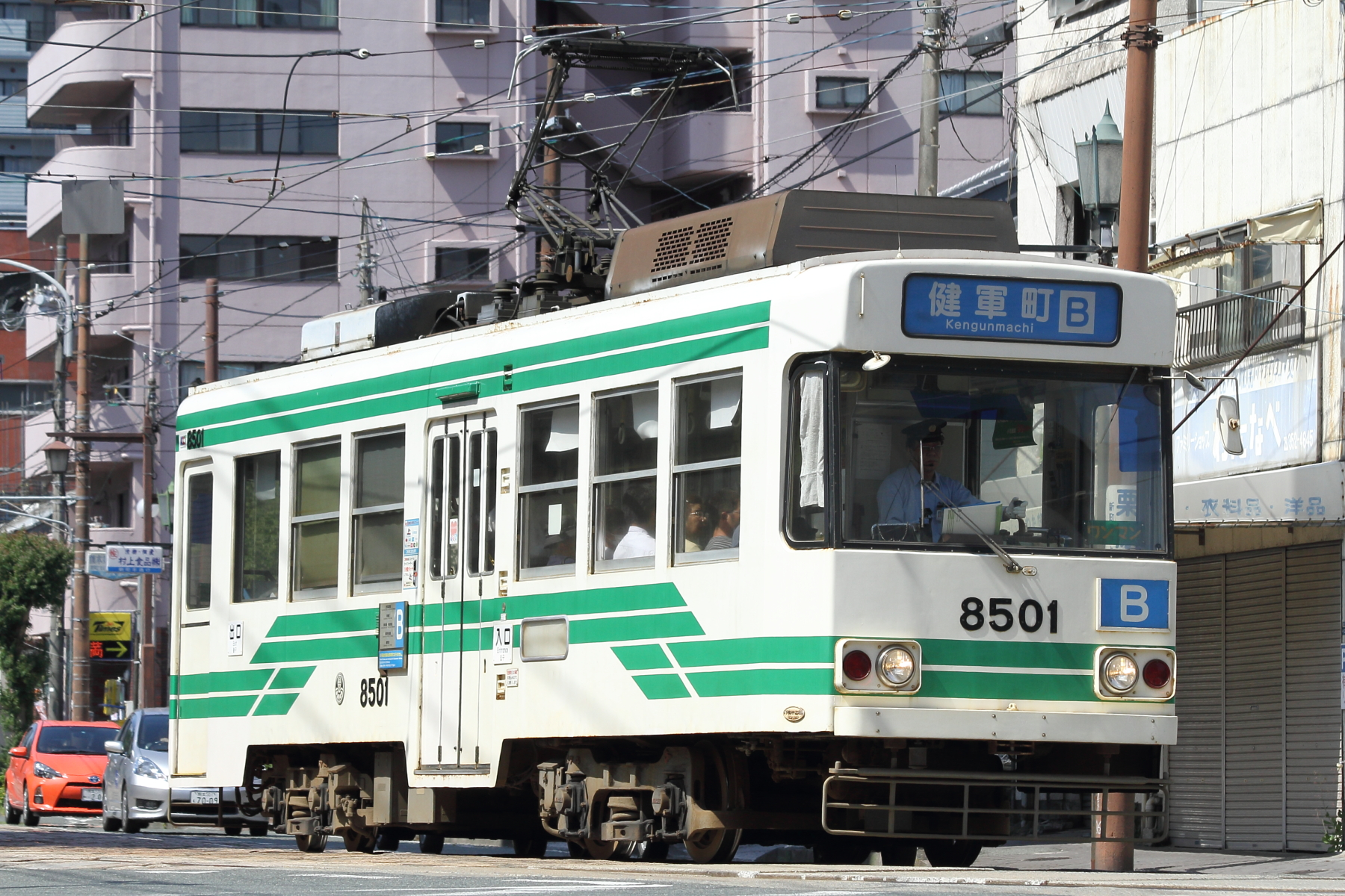 Kumamoto City Tram No.8501